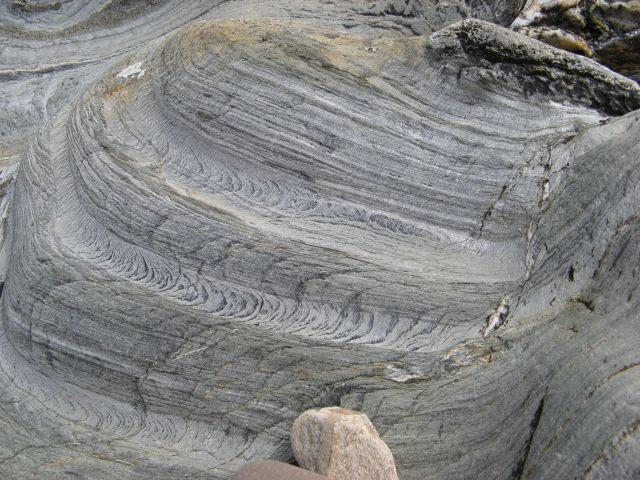 Dalradian metasediments near Ormsary in Scotland. The rocks show intermittent cleavage. In this sea-washed and eroded outcrop of Dalradian metamorphosed sedimentary rock the layers of finely-bedded sandstone are well displayed. Layers which were more muddy, and of finer-grain have developed a cleavage at a steep angle to the bedding during dynamic metamorphism. The coarser sandstones have a less-reactive composition and have not developed a foliation due to orientated mineral growth to the same degree, and are also more resistant to erosion, resulting in the cleaved layers being more rapidly cut back. The rocks are of Neoproterozoic age and are part of the Ardrishaig Phyllite Formation, which is part of the Easdale Subgroup of the Argyll Group.